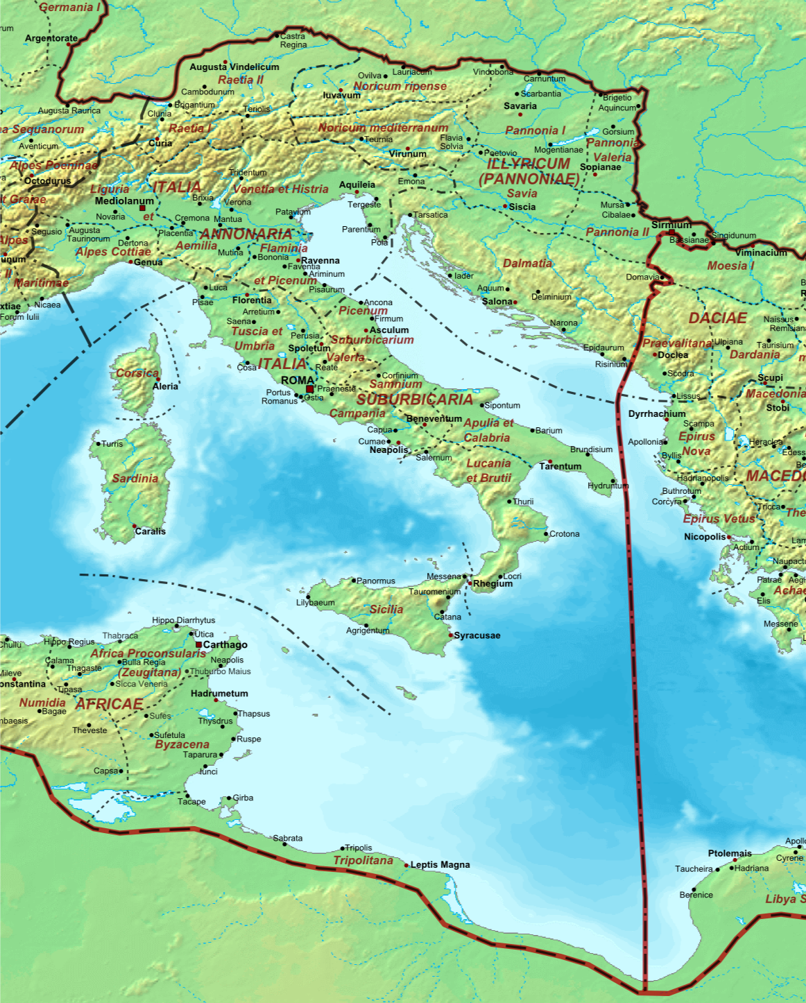 Map of the Roman Empire ca. 400 AD, showing the administrative division into dioceses and provinces, as well as the major cities. The demarcation between Eastern and Western Empires is noted in red.